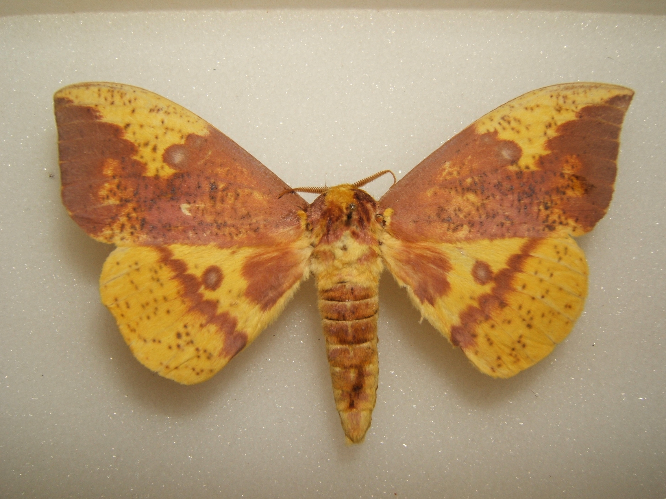 Eacles imperialis adult male taken by Shawn Hanrahan at the Texas A&M University Insect Collection in College Station, Texas.